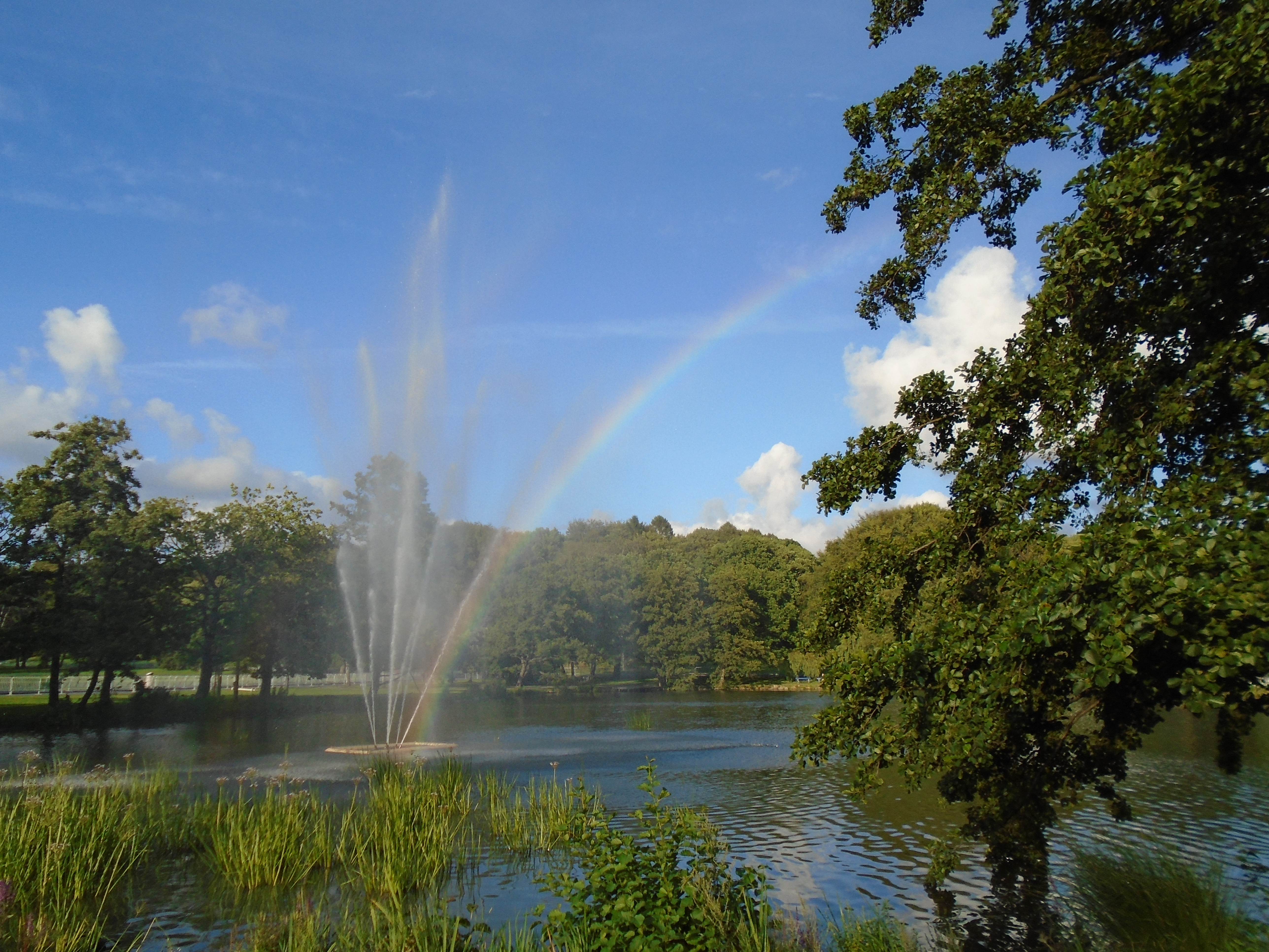 Slottsskogen park in Göteborg, Sweden.